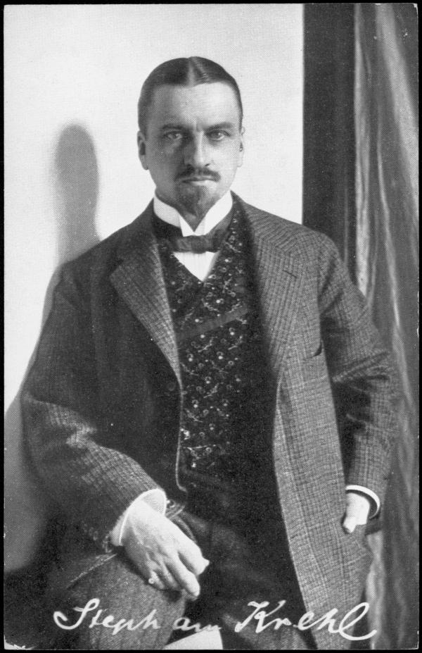 German musician Stephan Krehl (1864–1924)